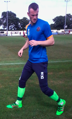 Callum Burton pictured in 2016